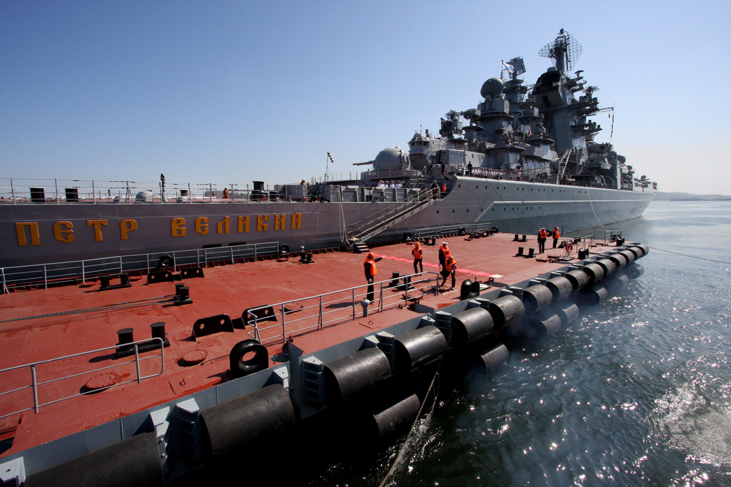 “Pacific fleet vessels' sortie for combat training.”. The heavy nuclear-powered GM cruiser Petr Velikiy ("Peter the Great") in a roadstead during the Pacific fleet vessels' sortie for combat training.